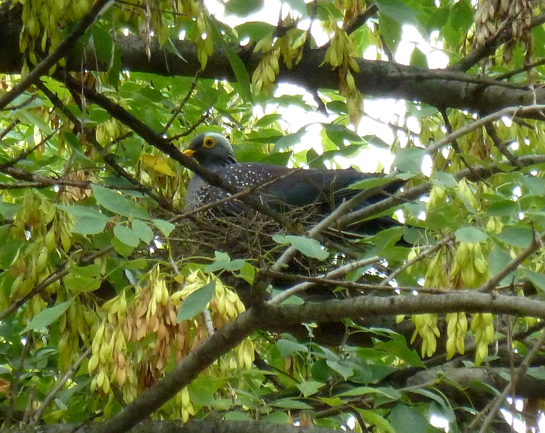 An African olive pigeon incubating in a Narrow-leaved Ash in Lynnwood Glen, Pretoria, South Africa